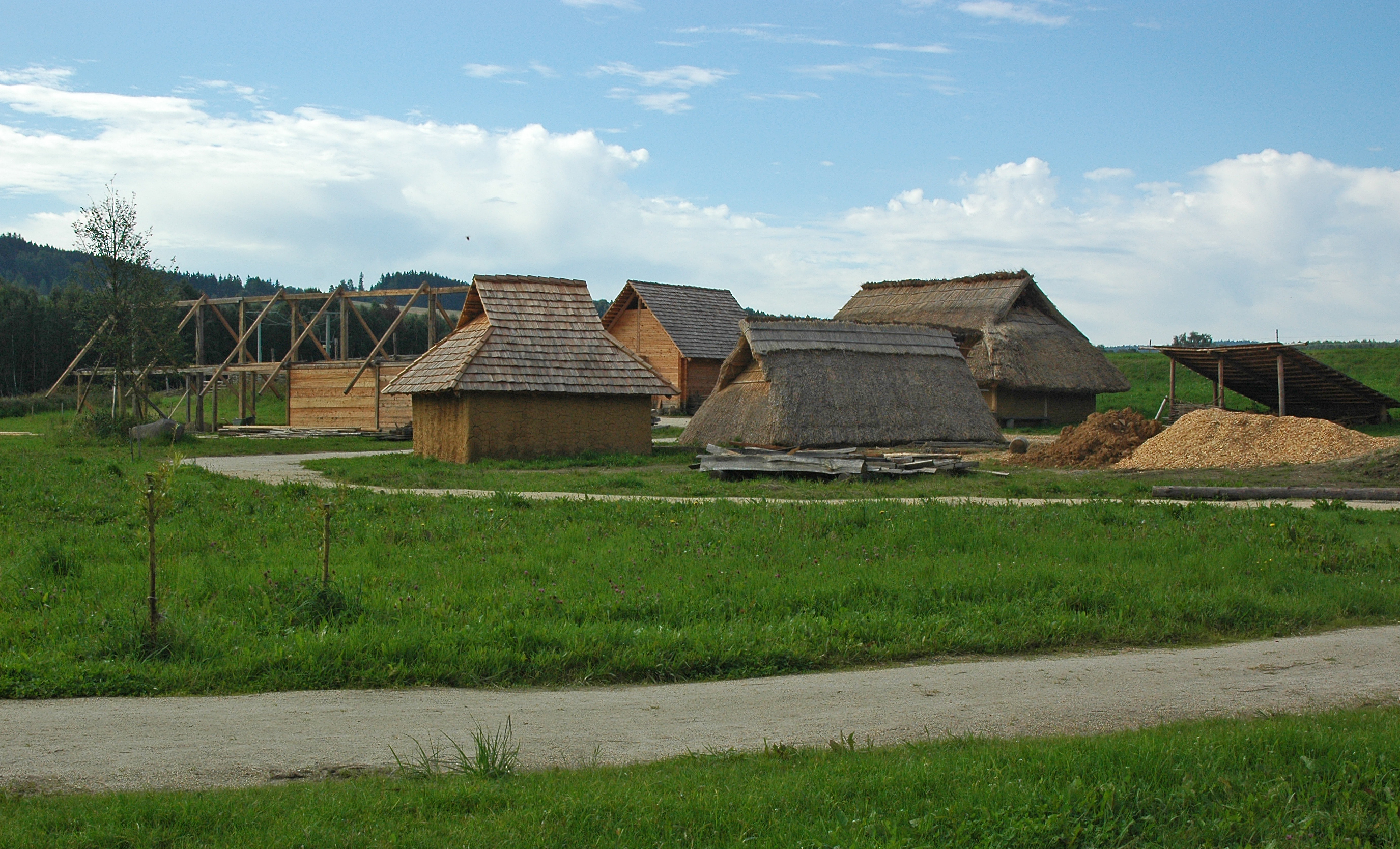 The early medieval village in the Baernau-Tachov historic site